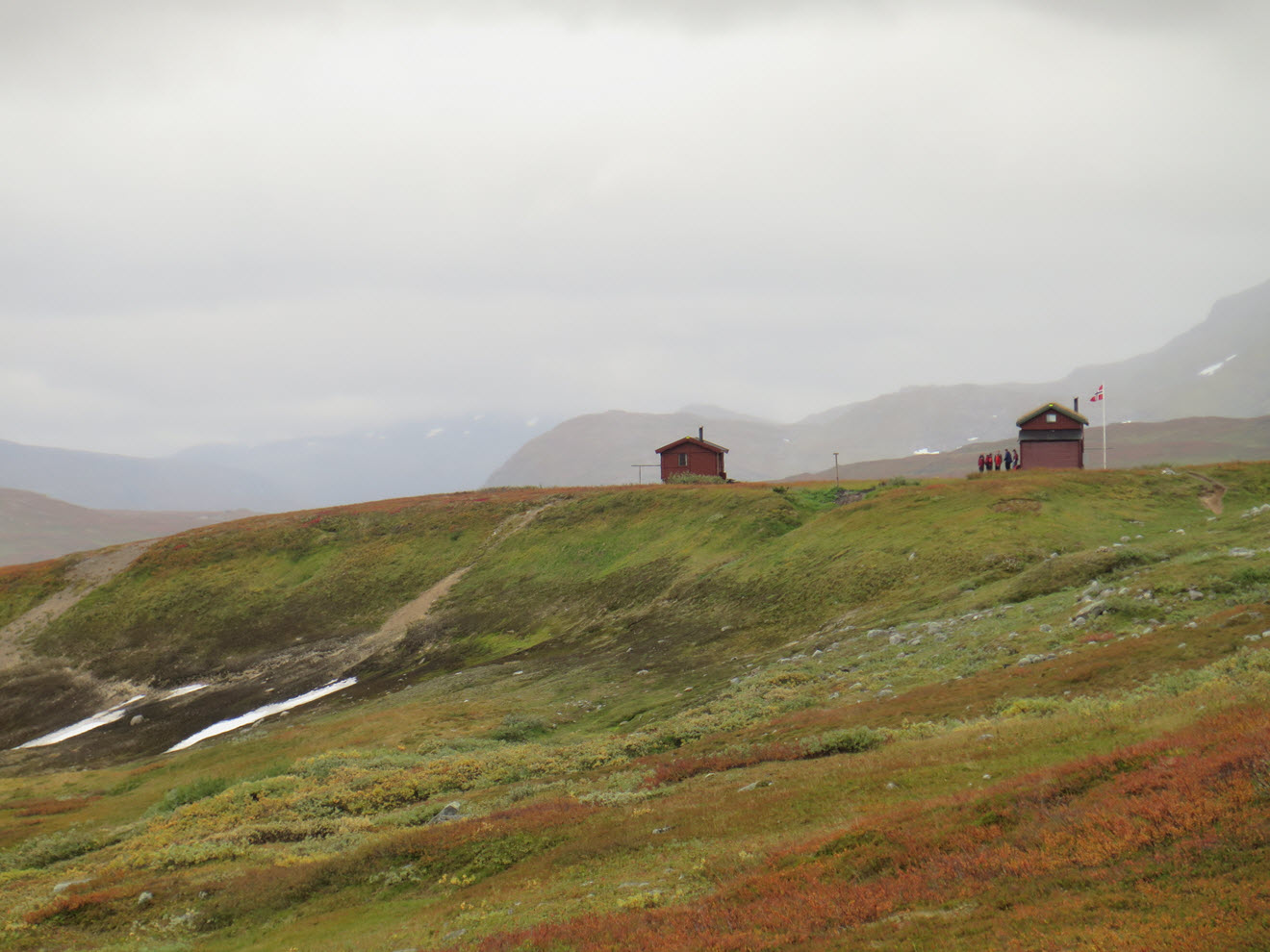 the cabin "Midtistua" in Saltfjellet National Park, Northern Norway